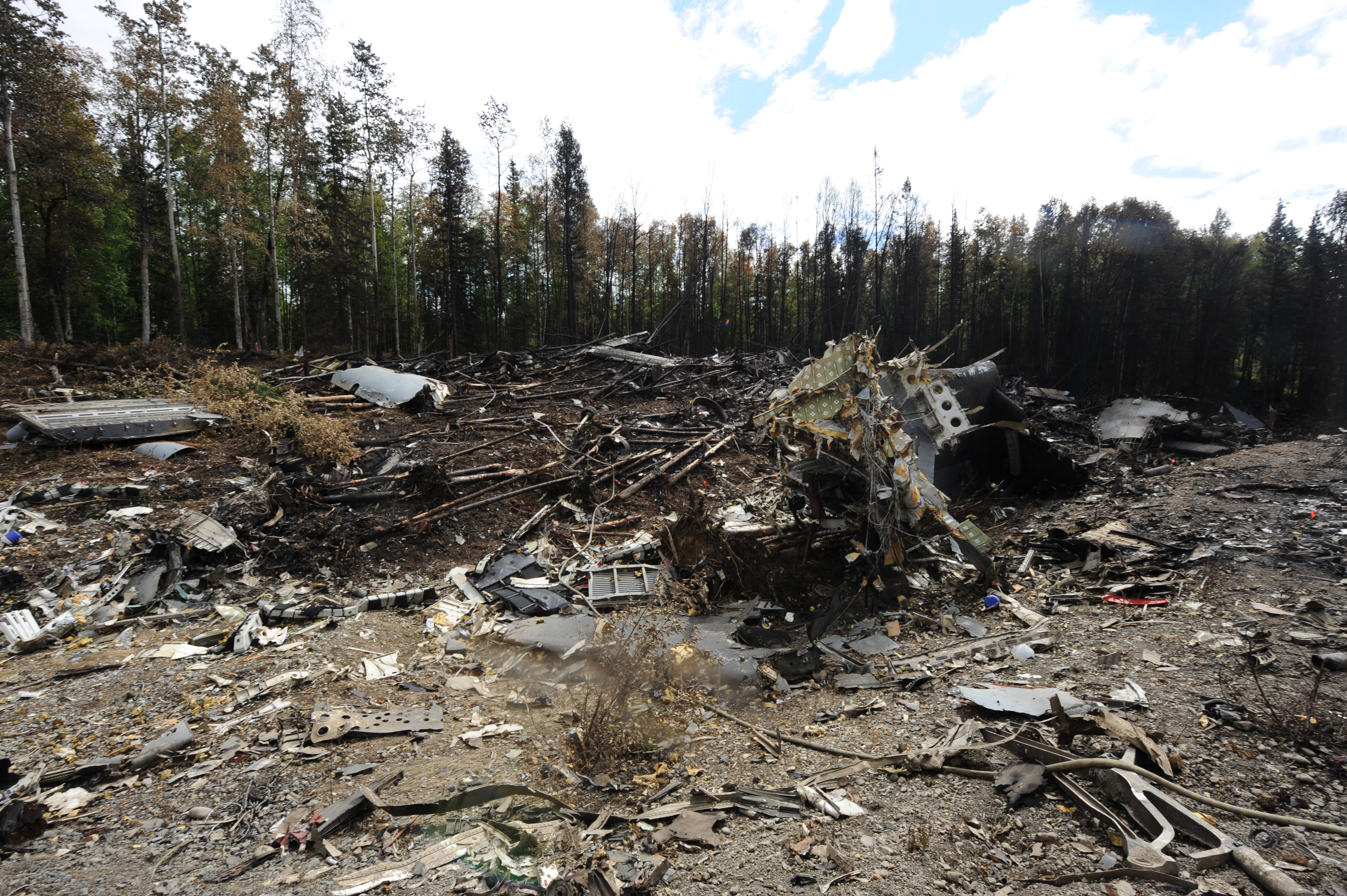 JOINT BASE ELMENDORF-RICHARDSON, Alaska – The wreckage of a 3rd Wing C-17 Globemaster III , a cargo aircraft, that crashed shortly after take-off at about 6:14 p.m. (Alaska time) during a local training mission July 28, 2010. The four crew members on board were killed in the crash; Majors Michael Freyholtz and Aaron Malone, pilots assigned to the Alaska Air National Guard’s 249th Airlift Squadron, Capt. Jeffrey Hill, a pilot assigned to Elmendorf’s 517th Airlift Squadron, and Master Sgt. Thomas Cicardo, 249th Airlift Squadron loadmaster. The Safety Investigation Board members have been assigned and will be fully assembled by Aug 2. The investigation is on-going and will continue for an undetermined amount of time. Orange flags mark points of interest for the investigators.